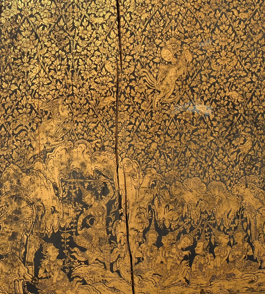 Detail from a large wooden manuscript cabinet from central Thailand showing a scene from the Mahosadha Jataka, one of the last Ten Birth Tales of the Buddha. The filigrane gold and lacquer decoration made in “lai rot nam” technique is of outstanding quality (19th century). Gift from Doris Duke’s Southeast Asian Art Collection. British Library, Foster 1057